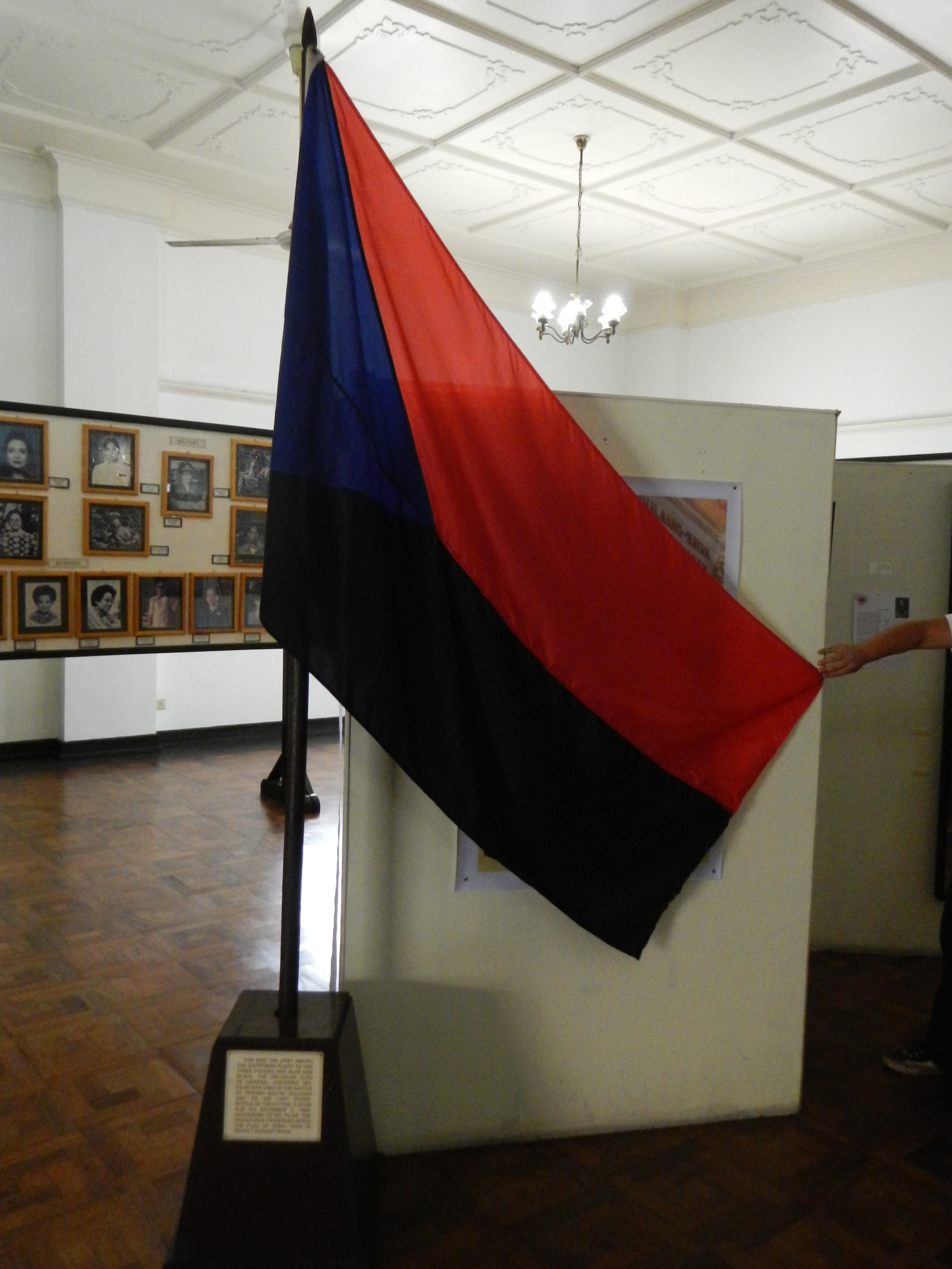 Casa Real de Malolos, Built in 1580,residence and office of the Gobernadorcillo of Malolos until 1673.It was used as Casa Tribunal of Pueblo de Barasoain in 1859.During American Occupation of Malolos,it was used again as the Municipal Hall of unified towns of Malolos,Barasoain and Sta Isabel in 1903-1940,Bulacan High School Annex in 1941.During Japanese period,served as office of Japanese Chamber of Commerce (1941–1944),in 1945 it became headquarters of Auxiliary Unit of US Army.In 1946 served as Temporary Provincial Capitol of Bulacan because the province capitol was damaged during World War II.In 1947,Bulacan Trade School,1948 a Branch of Philippine National Bank.And in 1950,Malolos Postal Office.Today it is a Museum maintained by the National Historical Institute containing artifacts and memorabilia holding relics of the 21 Women of Malolos. [1]